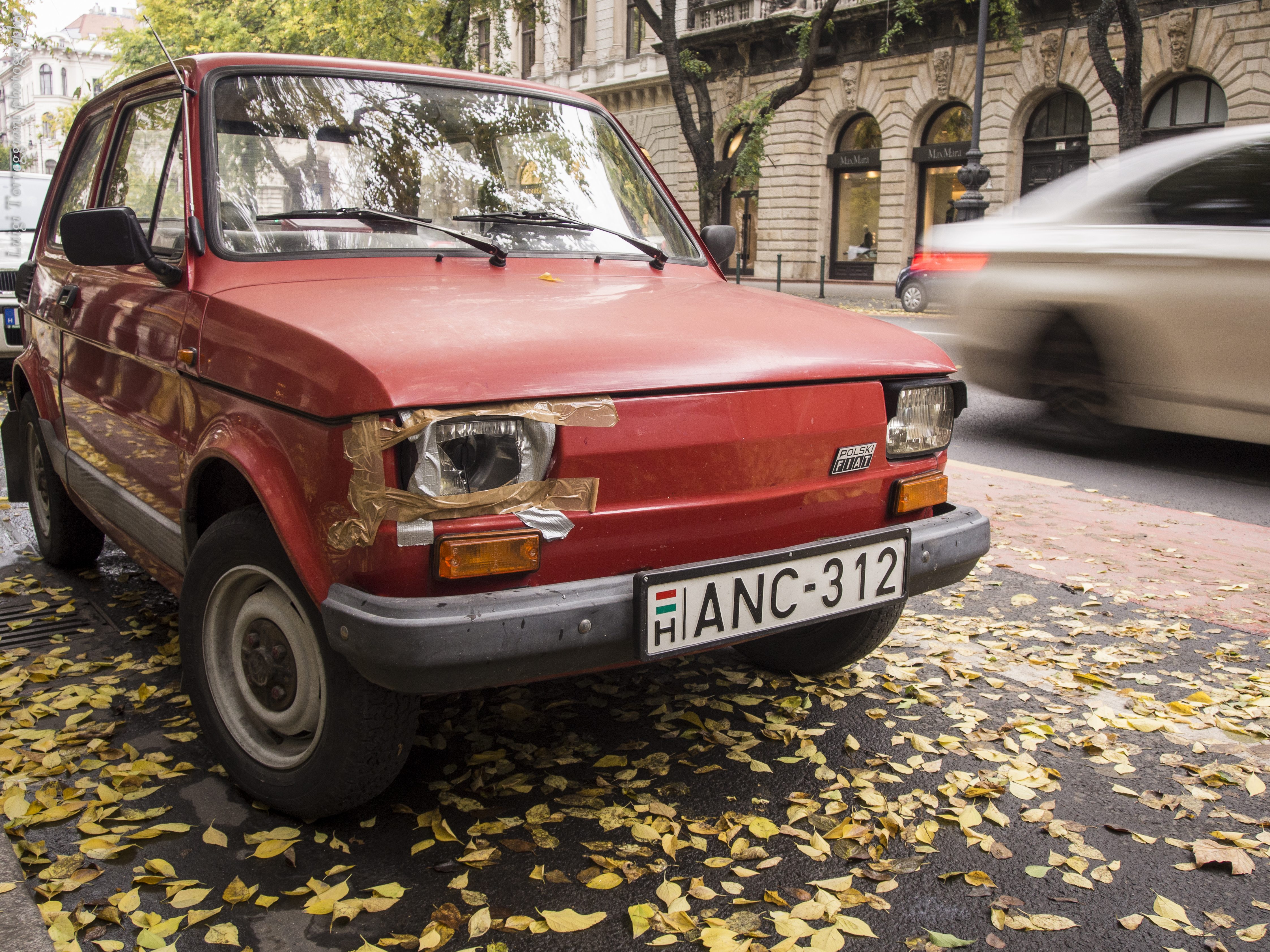 Red Polski Fiat 126p in Budapest